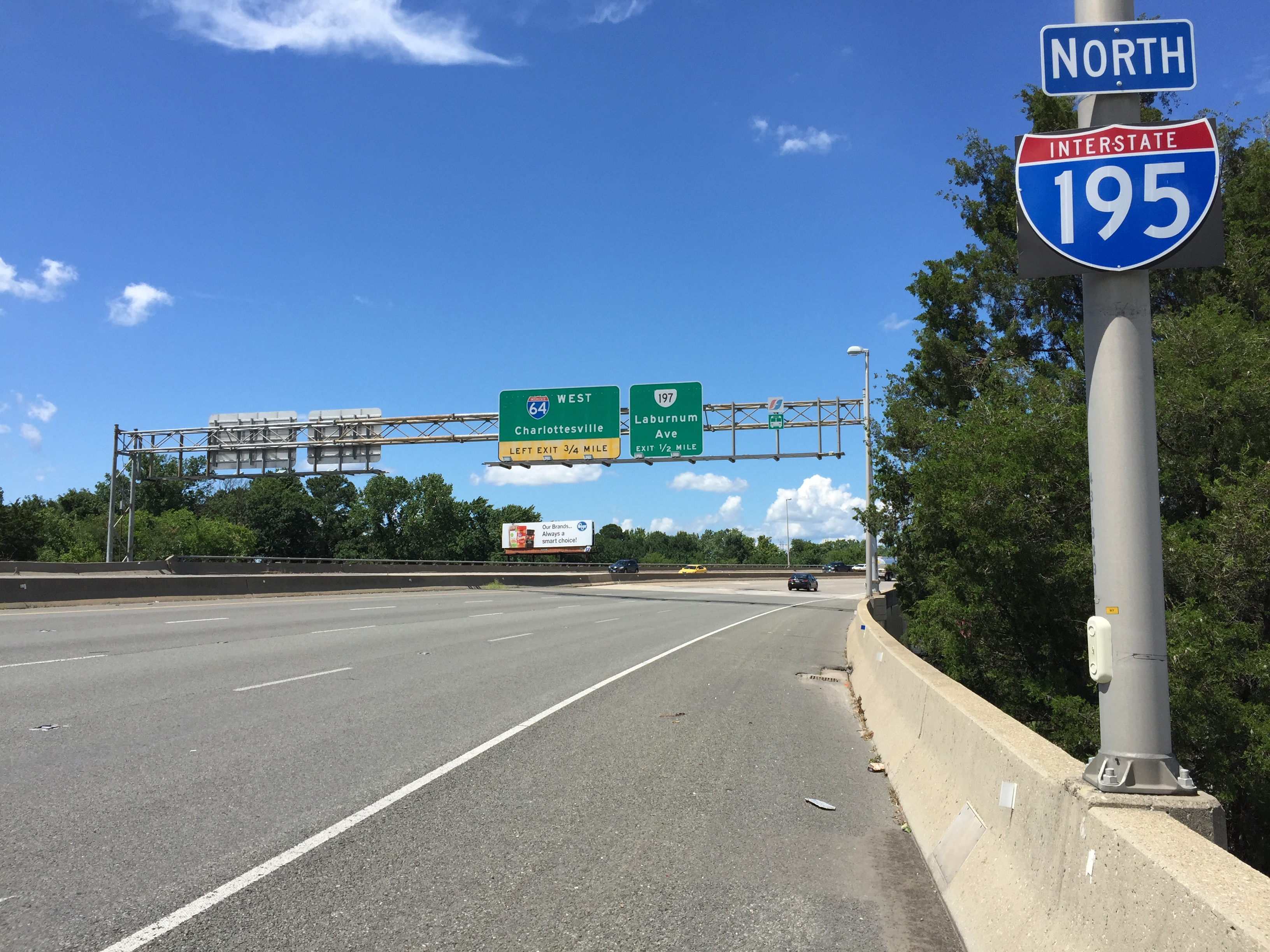 View north along Interstate 195 (Beltline Expressway) just south of Virginia State Route 197 (Westwood Avenue) in Richmond, Virginia